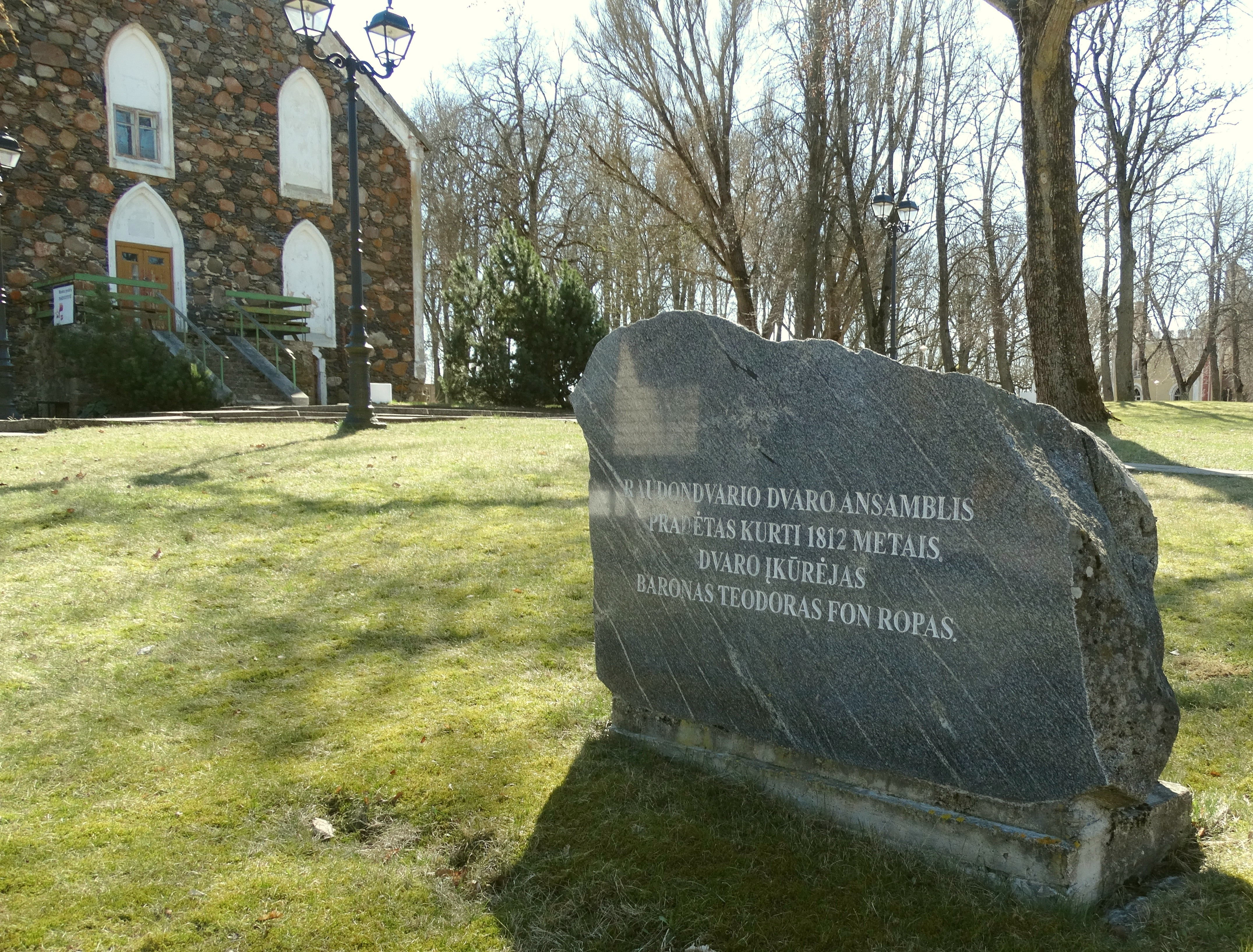 Šeduva manor, Raudondvaris, Radviliškis district, Lithuania